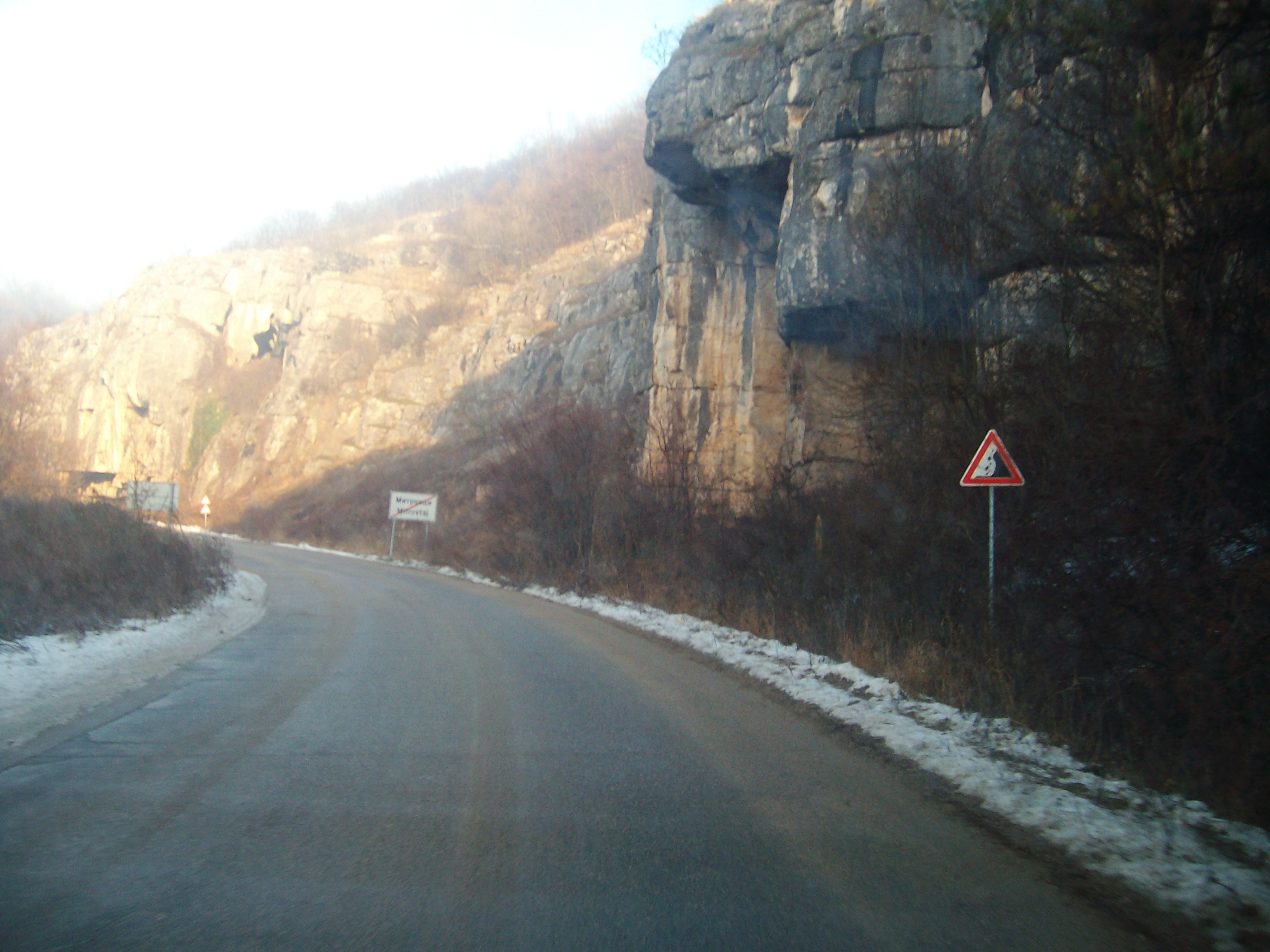 Rocks over the road between Montana and Belogradchik